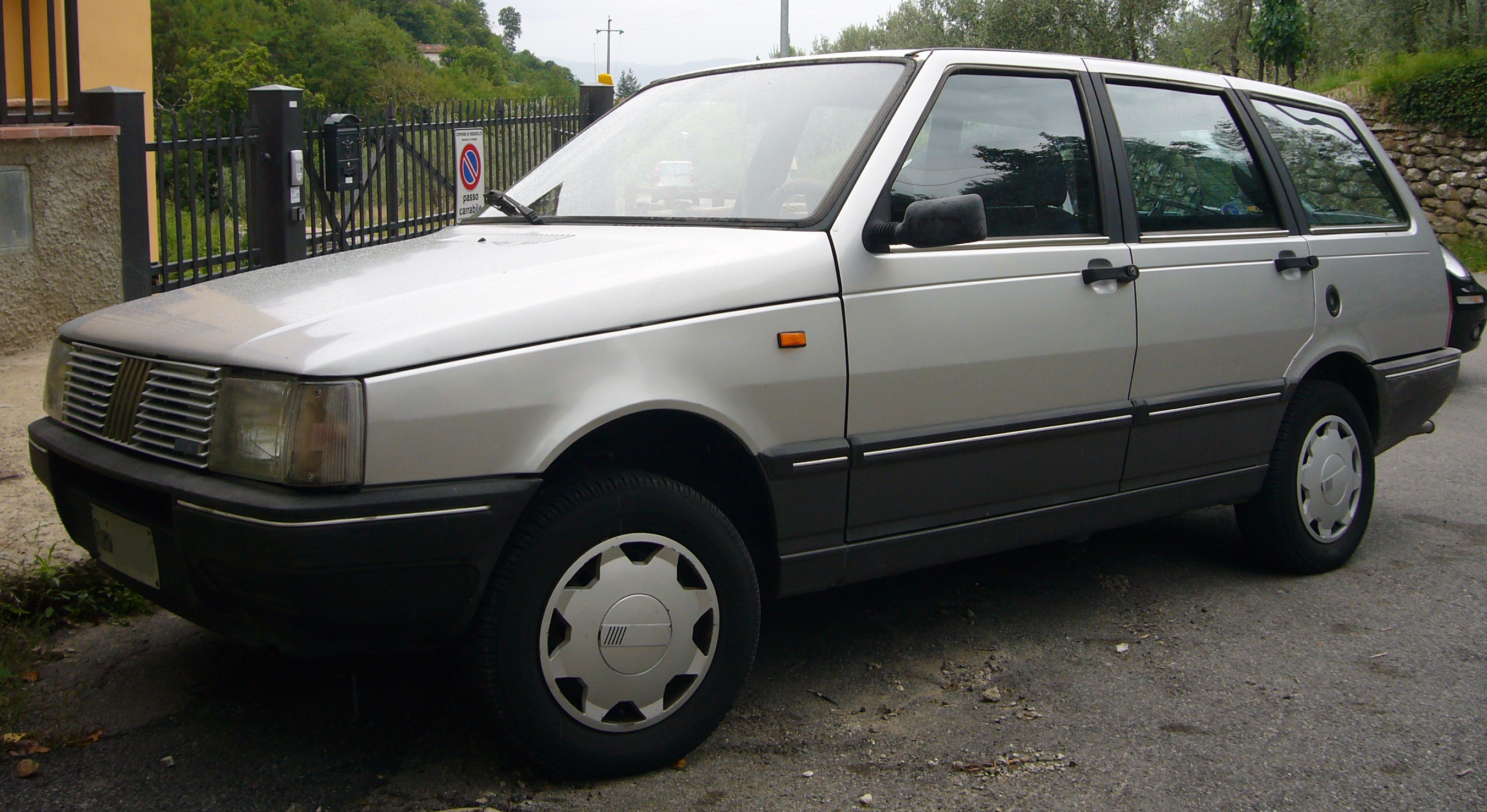 Fiat Duna Weekend 70 car in Tuscany, Italy.